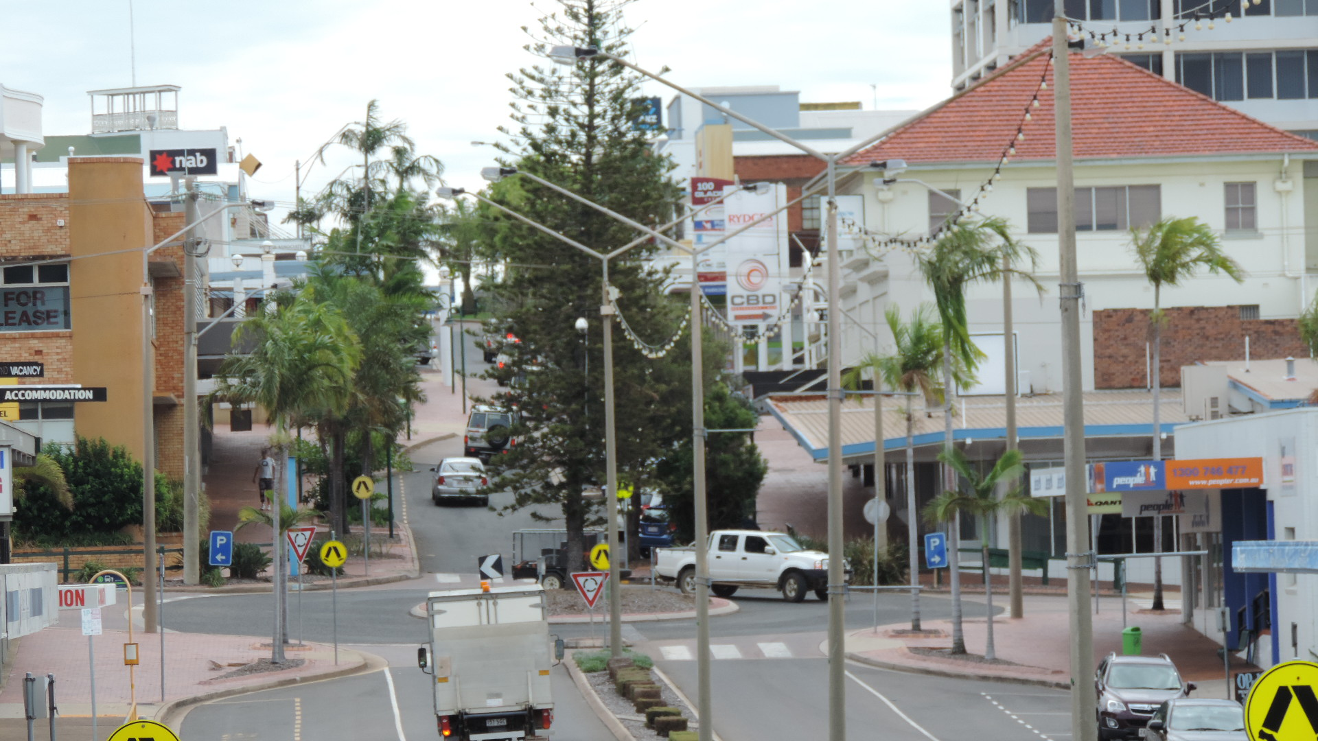 Looking up Goondoon Street (main street), Gladstone, 2014